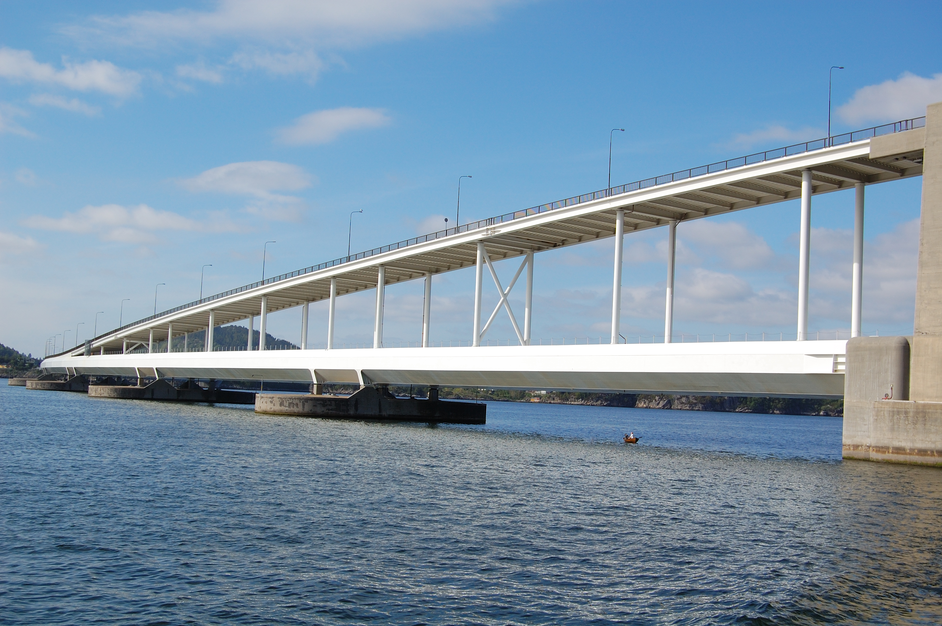 Nordhordland Bridge in Hordaland, Norway.